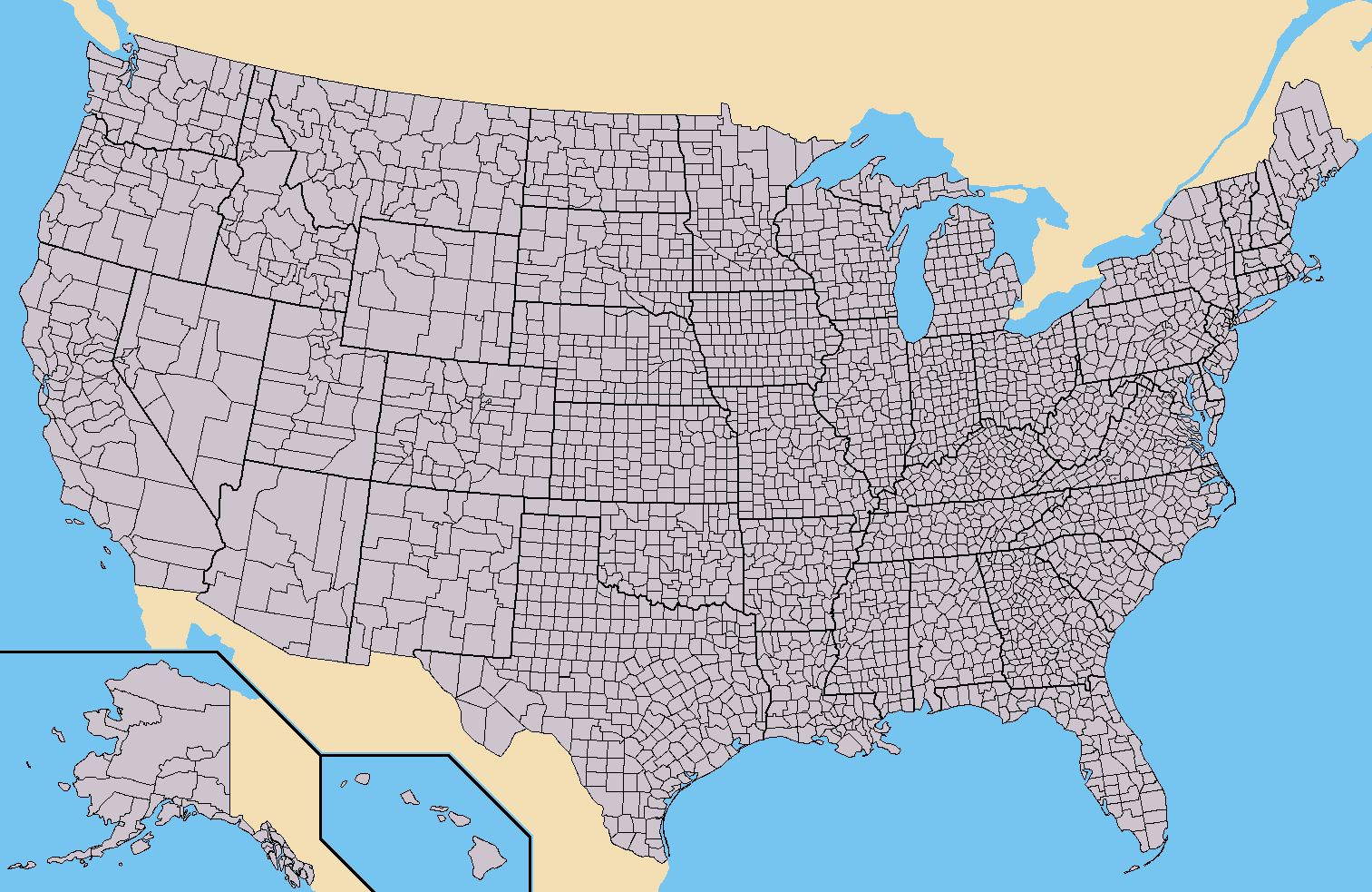 Map of the USA showing borders of states and counties. Colored version of adapted one by Wapcaplet from a public-domain map courtesy of the U.S. Census Bureau website first published in English language version of Wikipedia.